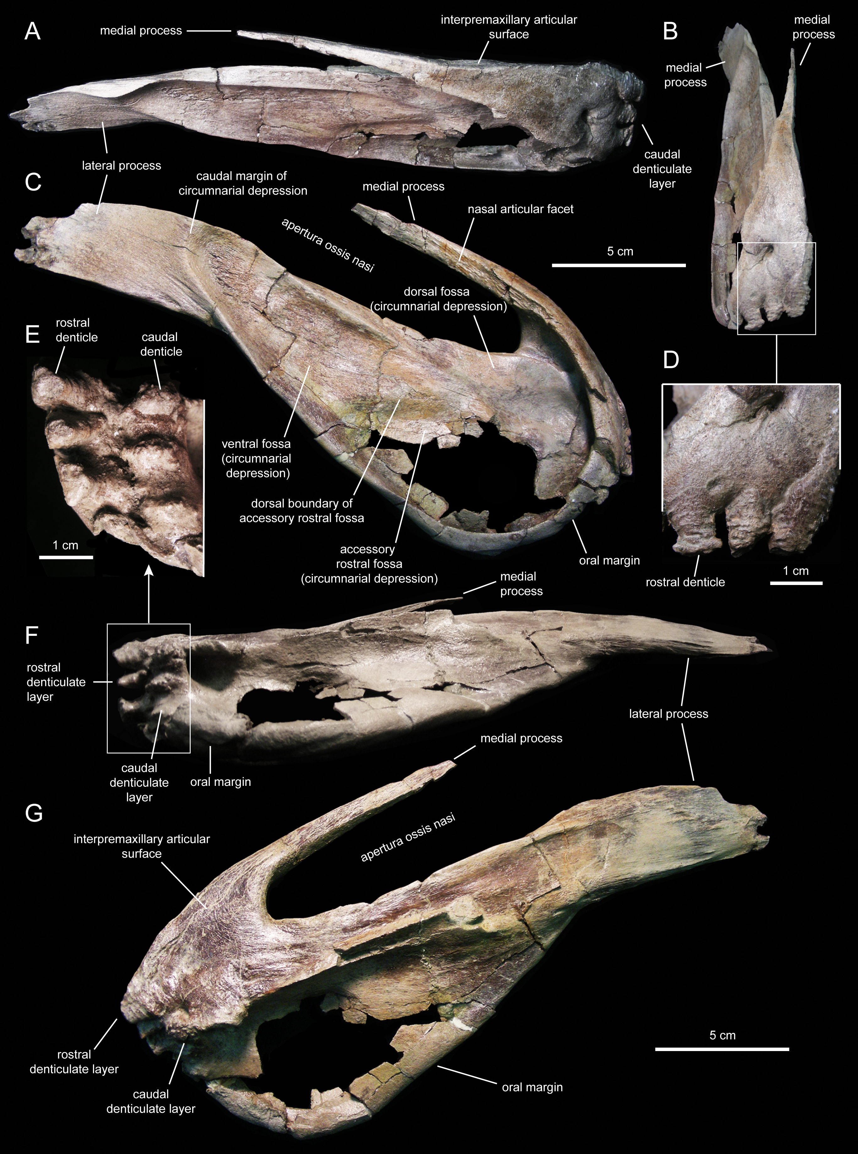 Right premaxilla of Eotrachodon orientalis (holotype MSC 7949). (A) Dorsal view. (B) Rostral view. (C) Lateral view. (D) Rostral view of rostral layer of premaxillary denticles. (E) Ventral view of premaxillary denticles. (F) Ventral view. (G) Medioventral view.